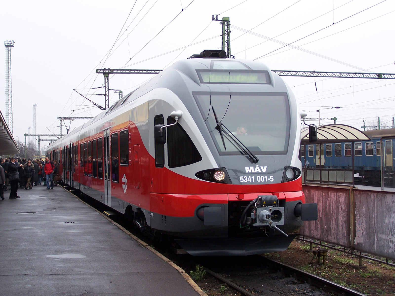 MÁV Stadler Flirt 5341 001-5, Székesfehérvár